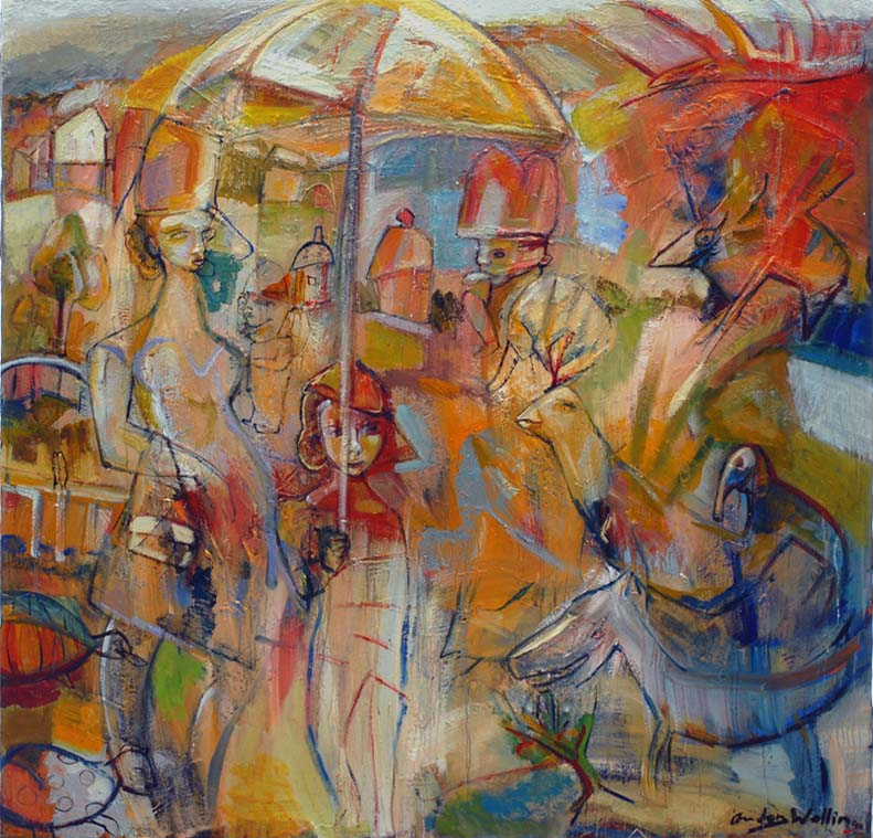 Painting entitled "The Daughter and the Umbrella" by Swedish artist Anders Wollin.